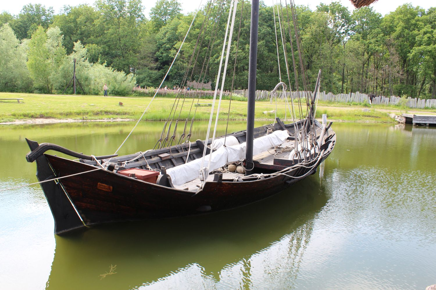 Reconstruction af Gedesbyskibet found near Gedesby on Falster. Both are reconstructions at Middelaldercentret near Nykøbing Falster